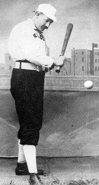 Dan Brouthers